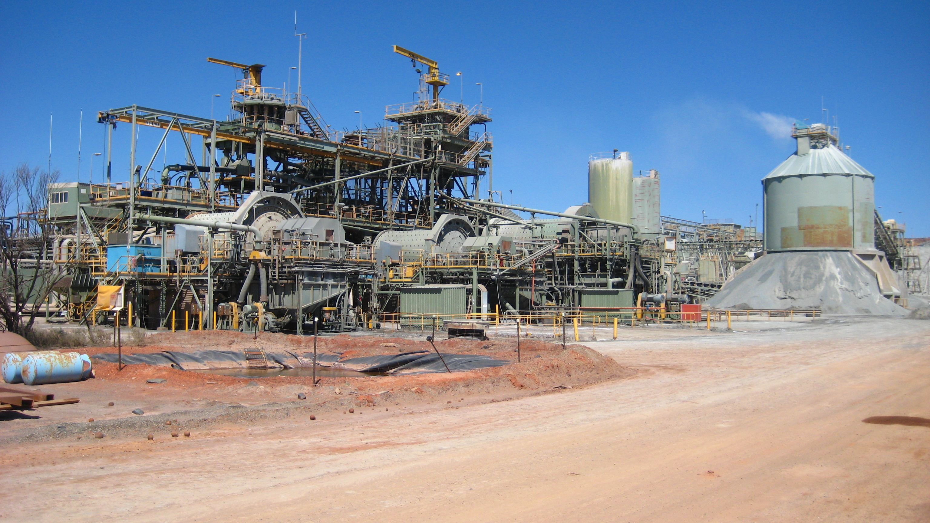 The mills at Sunrise Dam Gold Mine, Australia.